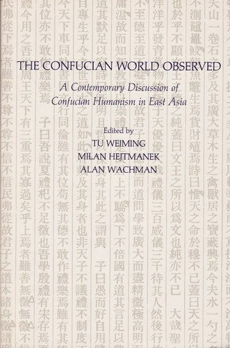 Book cover of The Confucian World Observed: A Contemporary Discussion of Confucian Humanism in East Asia, 1992 by Tu Weiming (Editor), and Alan Wachman (Editor). The text on the cover is from LUN YU (论语), or ANALECTS.